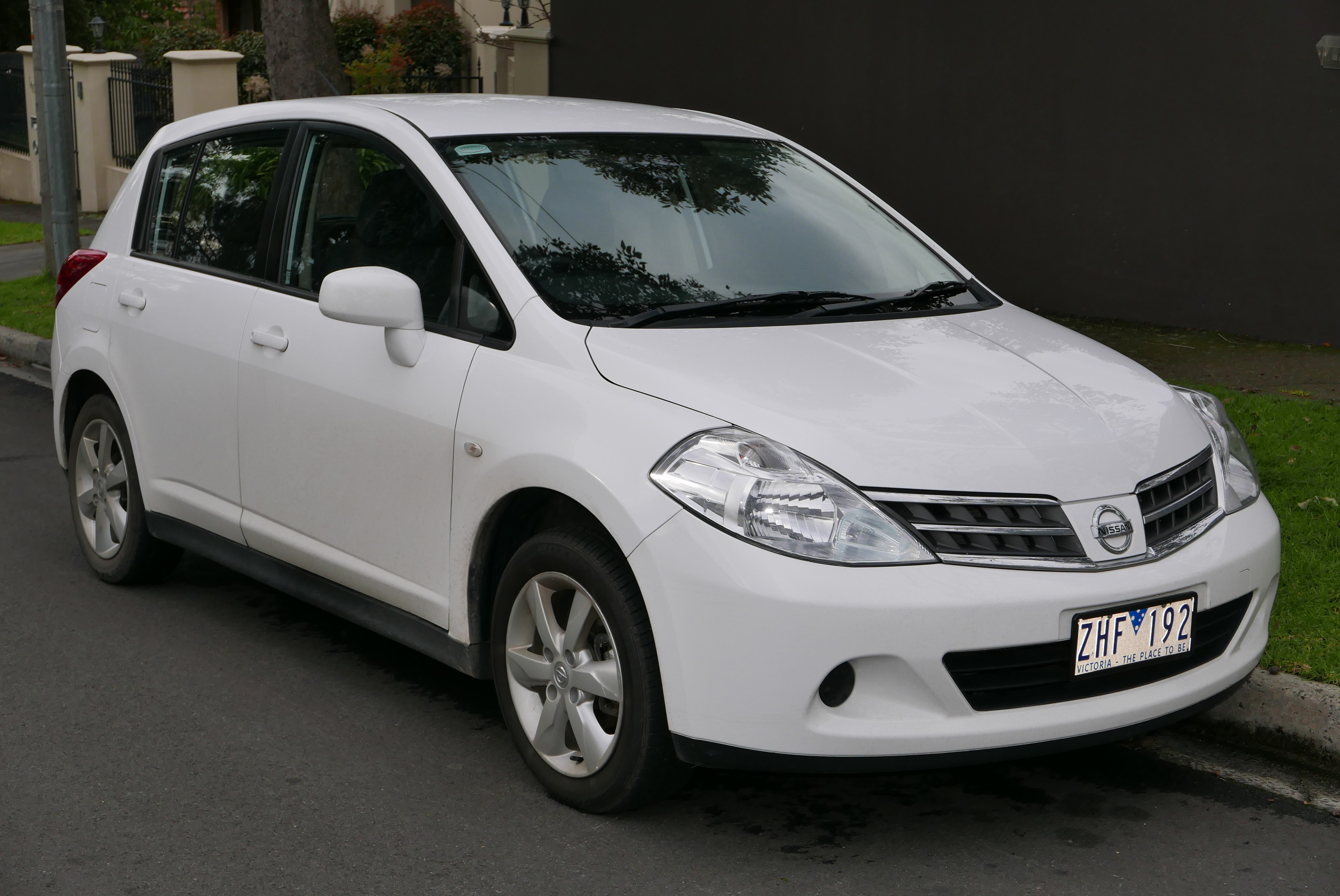 2012 Nissan Tiida (C11 S4) ST hatchback. Photographed in Balwyn, Victoria, Australia. Vehicle registration enquiry resultsJurisdictionVictoriaRegistrationZHF192Chassis codeMNTFBAC11A0023153Engine codeMR18087171RCompliance date2012-07Year of manufacture2012